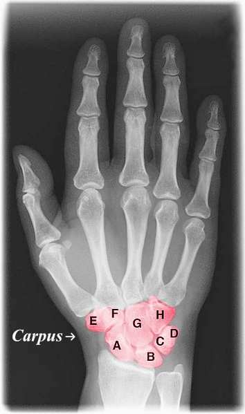 Left hand, anterior view. Carpus shown in red. Distal row: E: Trapezium F: Trapezoid bone G: Capitate bone H: Hamate bone Proximal row: A: Scaphoid bone B: Lunate bone C: Triquetral bone D: Pisiform bone